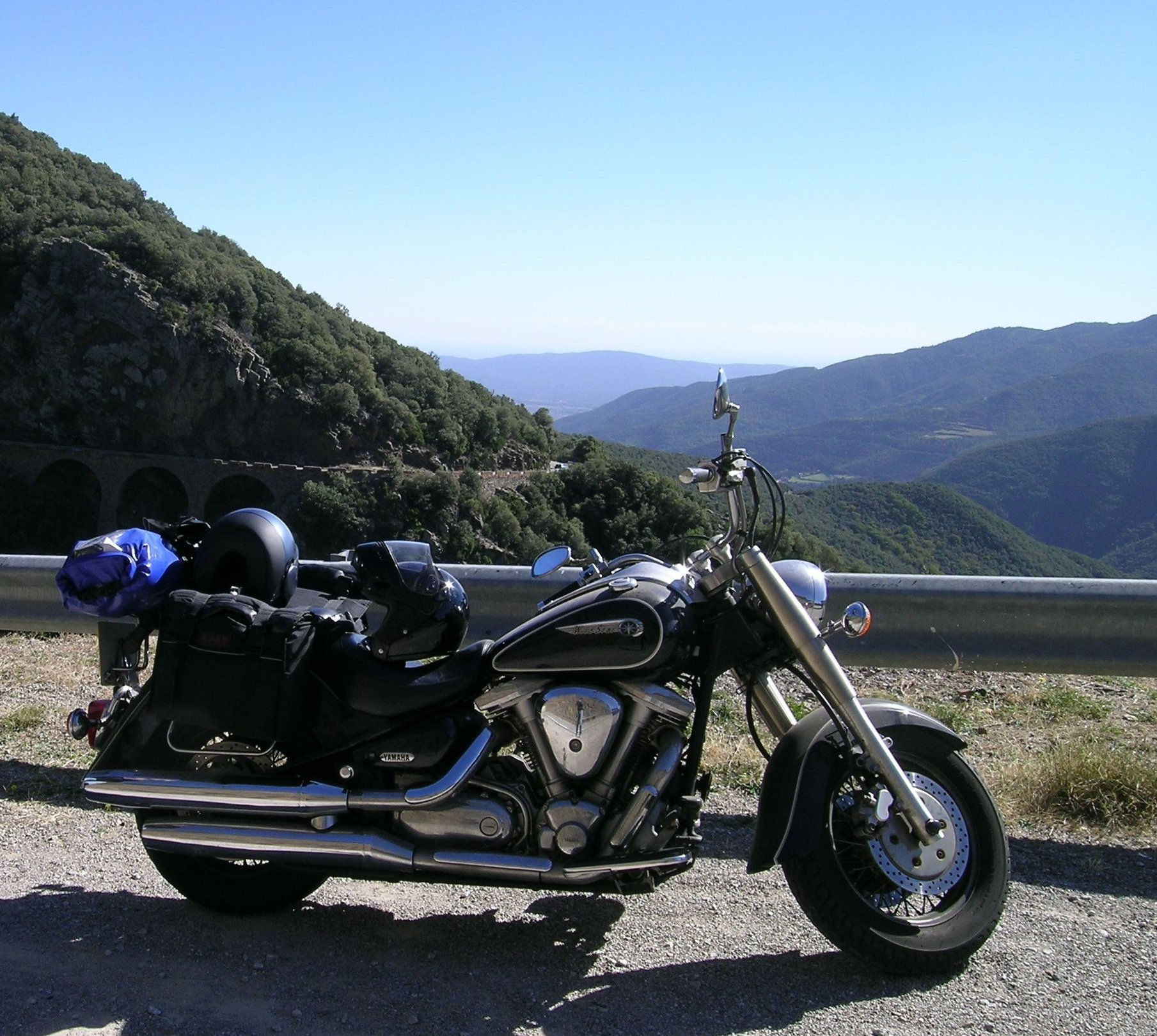 Yamaha XV1600A Wildstar October 2004 in "Parc Natural del Montseny" by Christof Damian